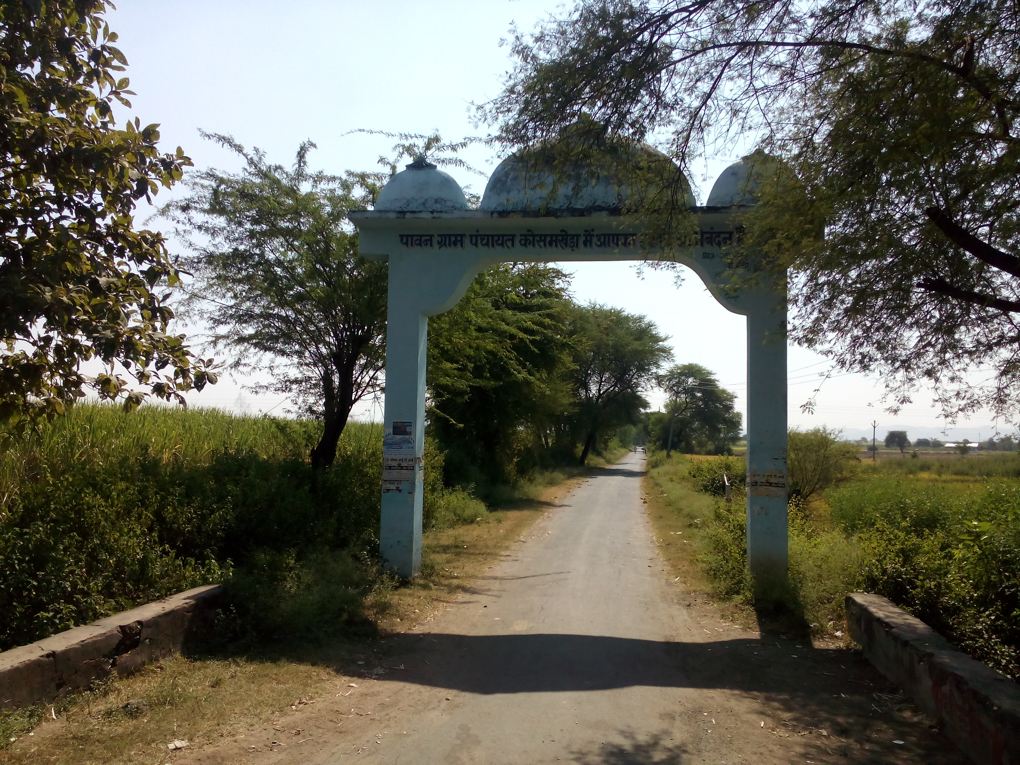 Welcome Gate of Kosamkheda by Neelesh Kumar Prajapati